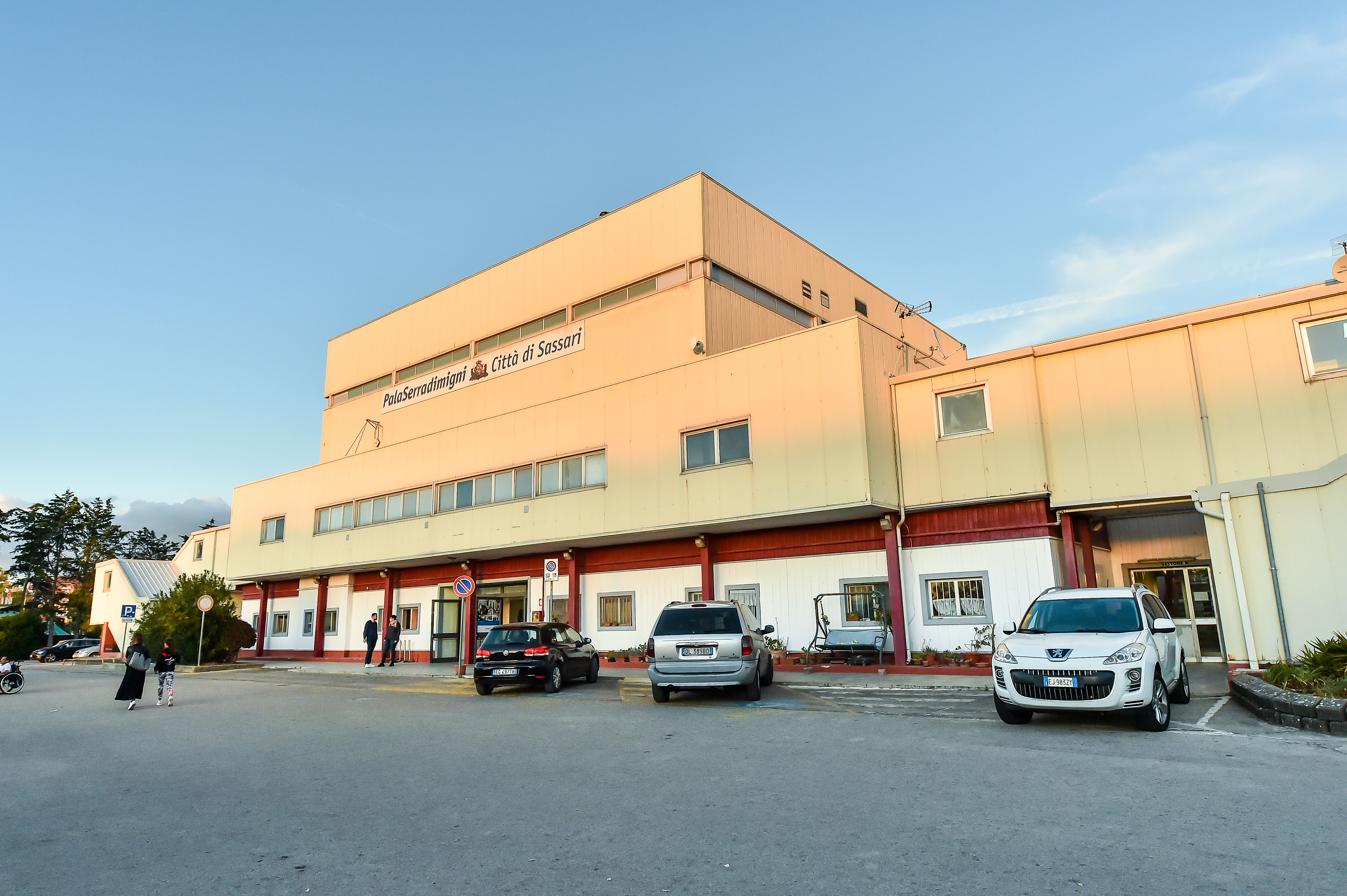 PalaSerradimigni Banco di Sardegna Dinamo Sassari - Lietkabelis Panevezys FIBA Basketball Champions League BCL 2019-2020 Sassari, 16/10/2019 Foto L.Canu / Ciamillo-Castoria